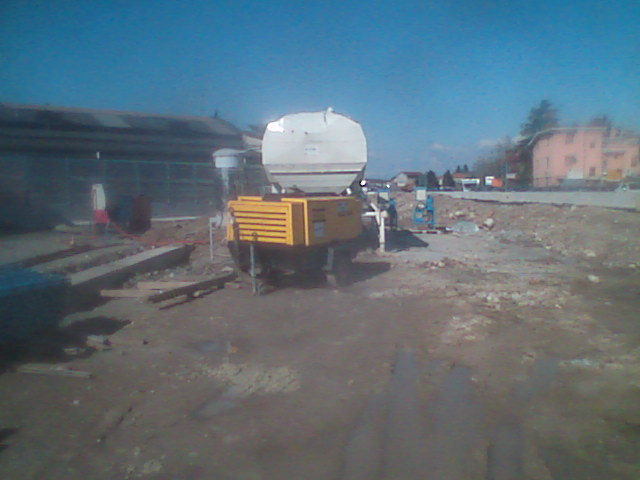 20.03.2011 works in ss 36 MONZA ITALY